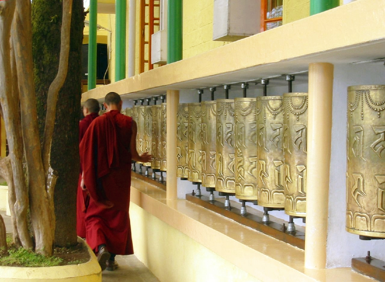 Prayer Wheels at Tsuglagkhang Temple, McLeod Ganj.